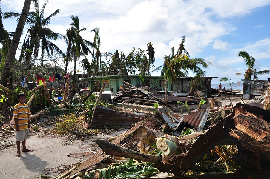 In Chuuk, more than 6,500 people have been displaced from their homes because of the damage caused by Typhoon Maysak